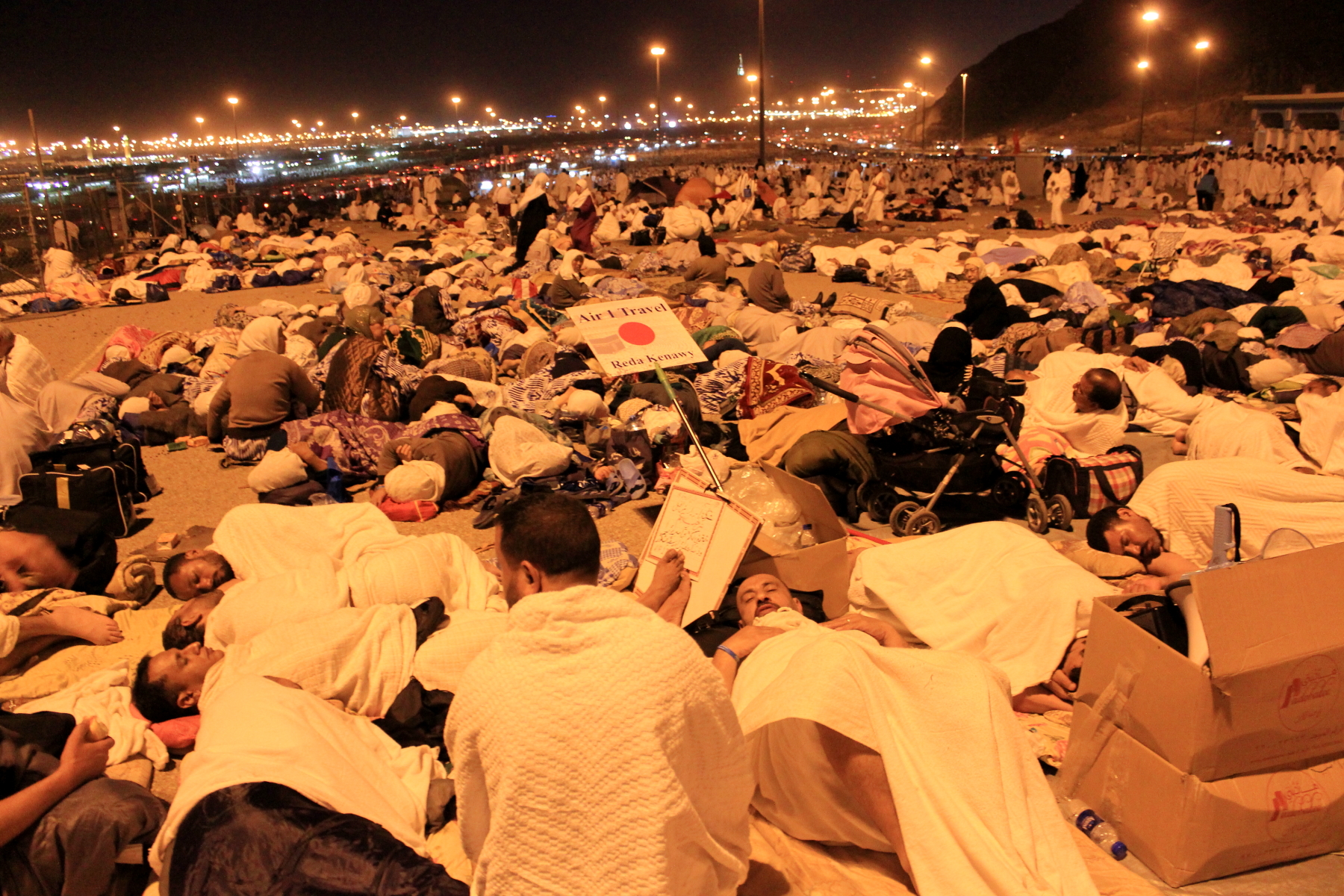 The pilgrims spend the night at Muzdalifah, often sleeping in the open air, before leaving for Mina the next morning.